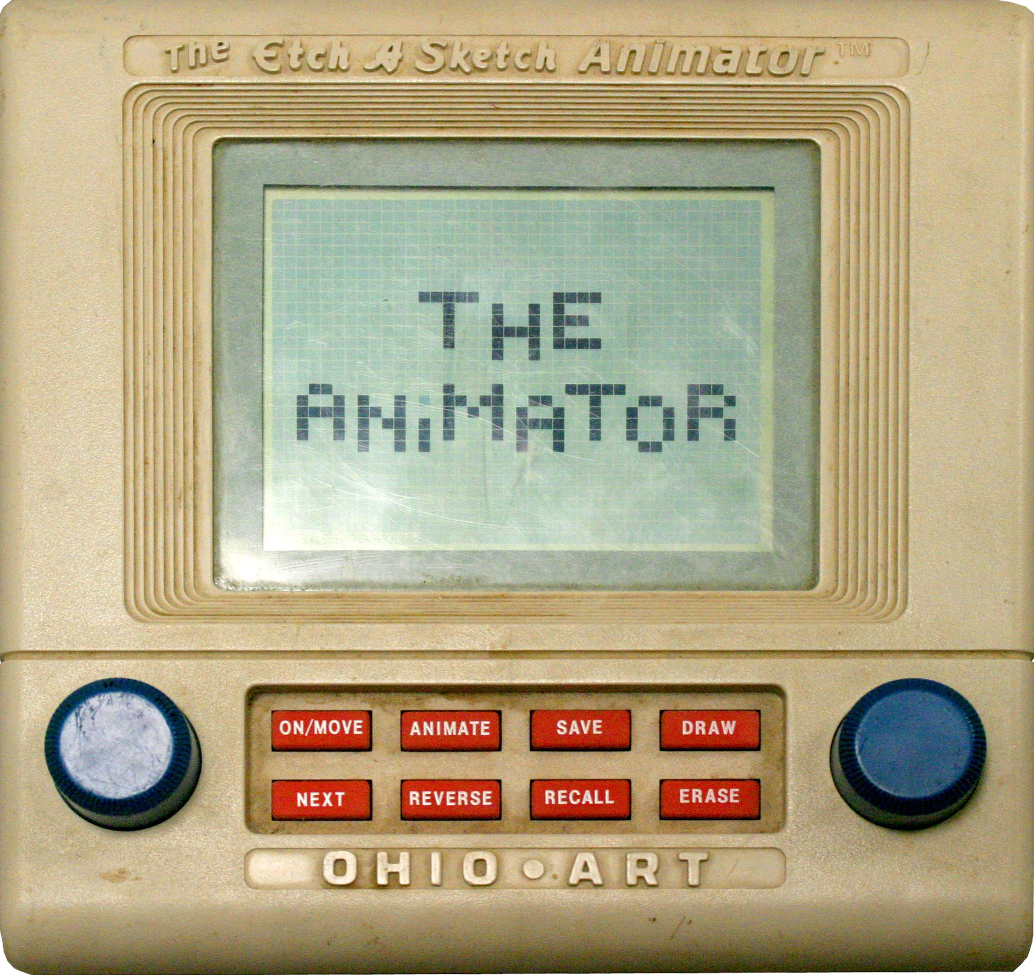 A photo I took of my old Etch-A-Sketch Animator. A bit dirty, unfortunately. Perhaps I'll clean it up and take a better picture.